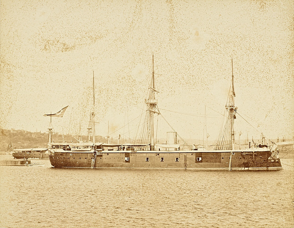 Ottoman Ironclad Hamidiye in Golden Horn